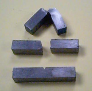 Charpy vee notch specimen